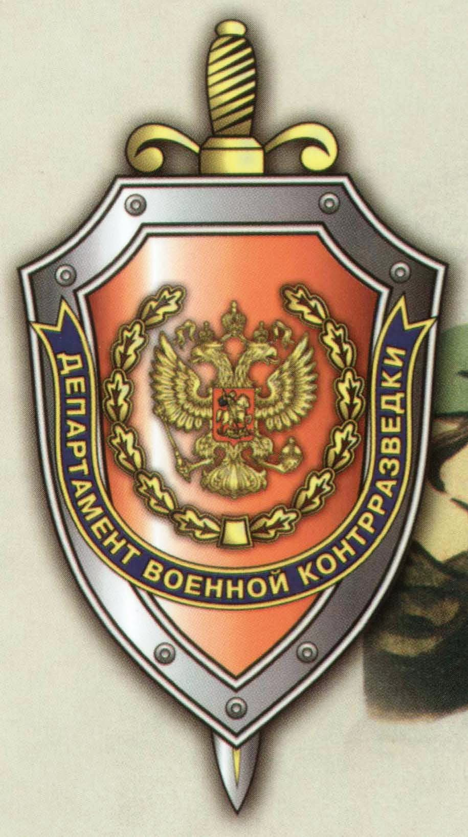 Cuc tinh bao quan su